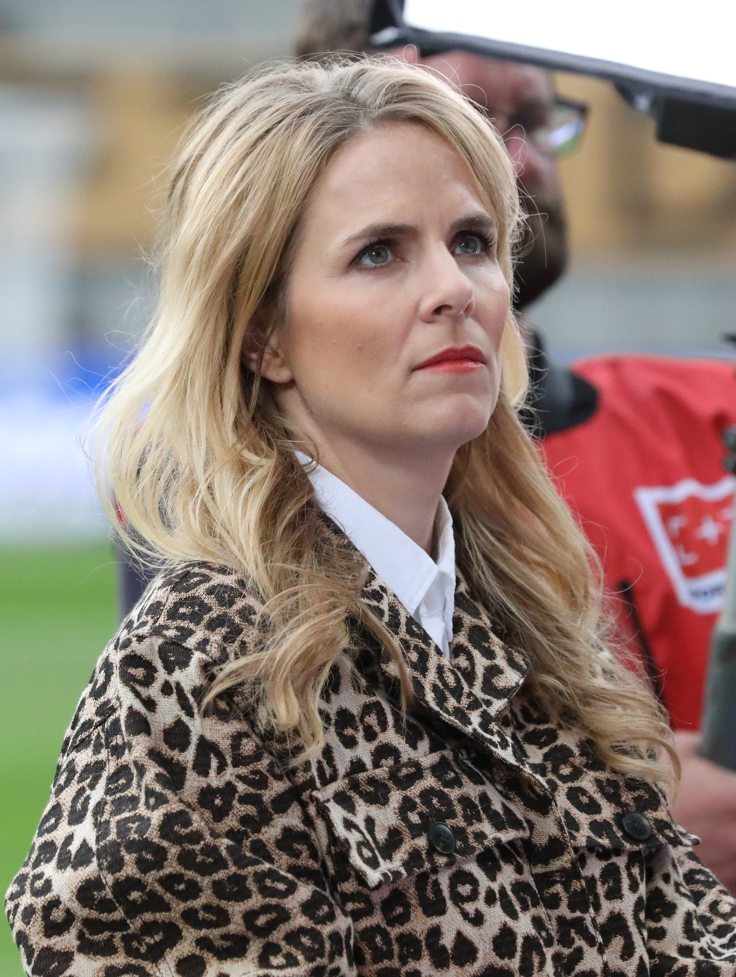 Test game, 17th July 2019: SG Dynamo Dresden vs. Paris Saint-Germain 1:6 (0:3)